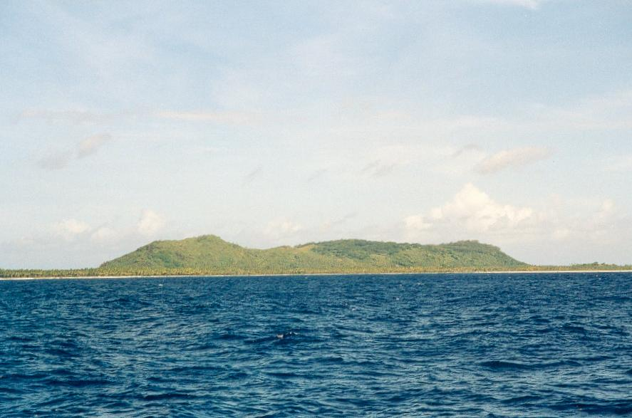 Maiao island (French Polynesia) seen from the sea